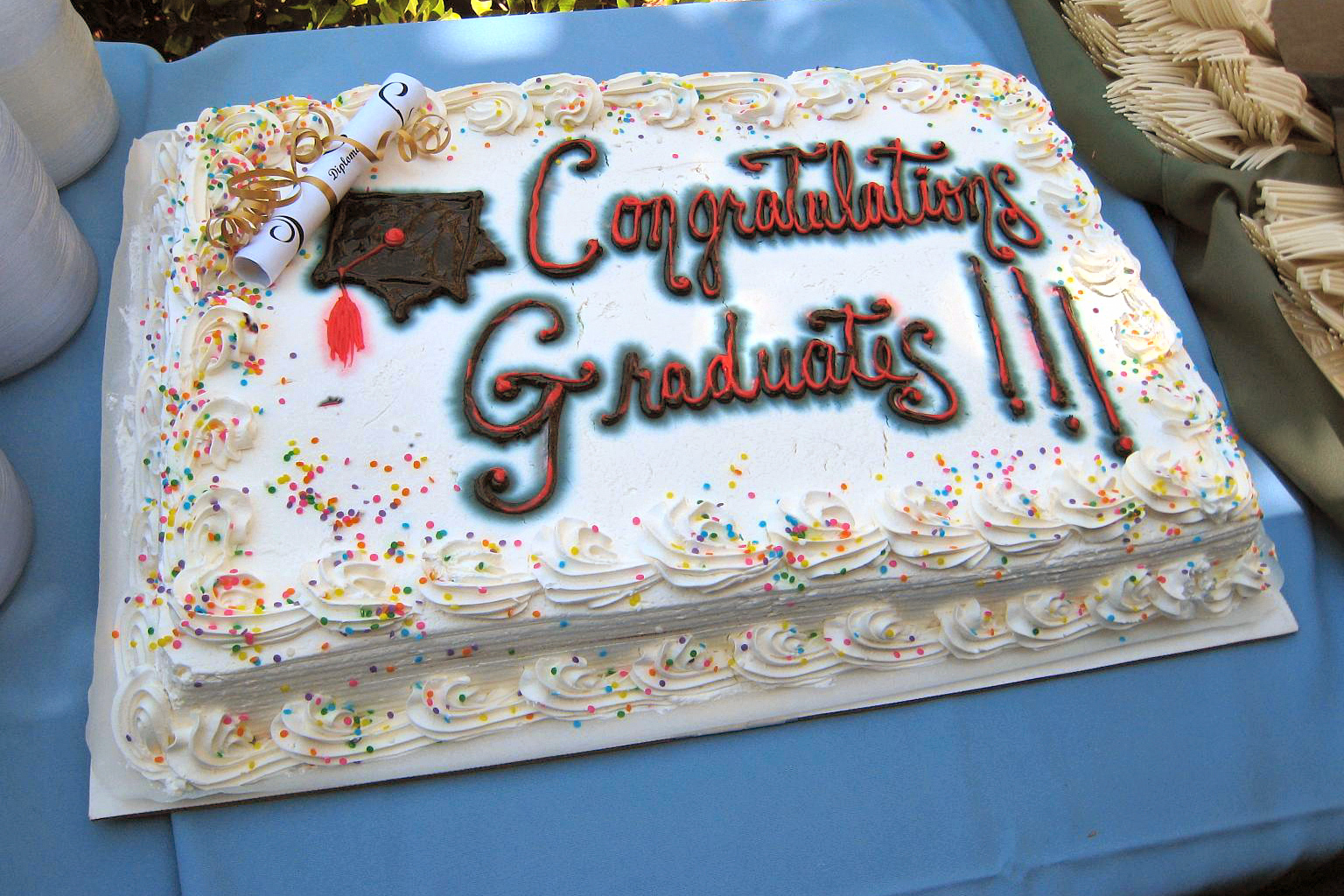 Iced and decorated sheet cake